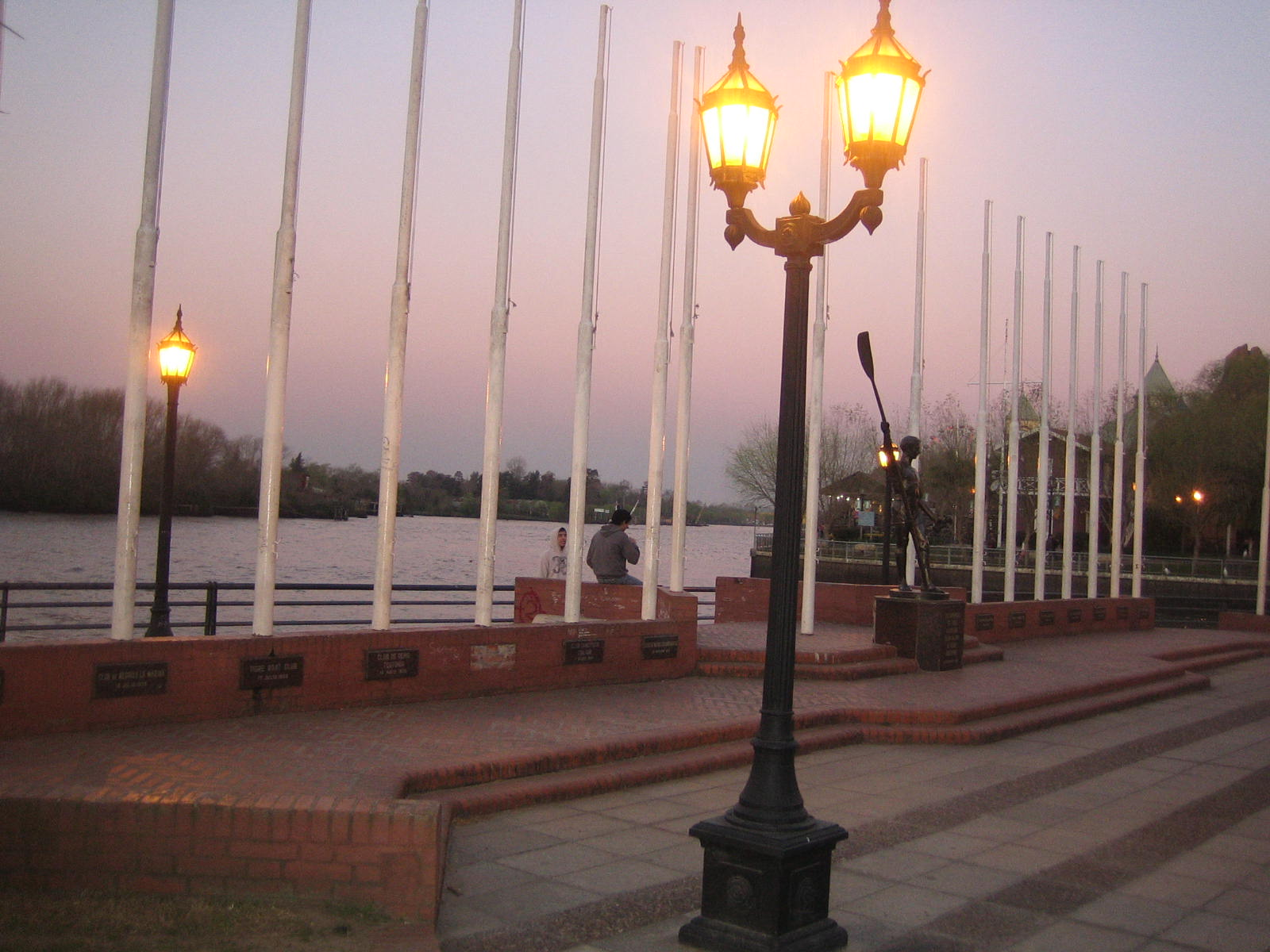 Luján river and Tigre river courner